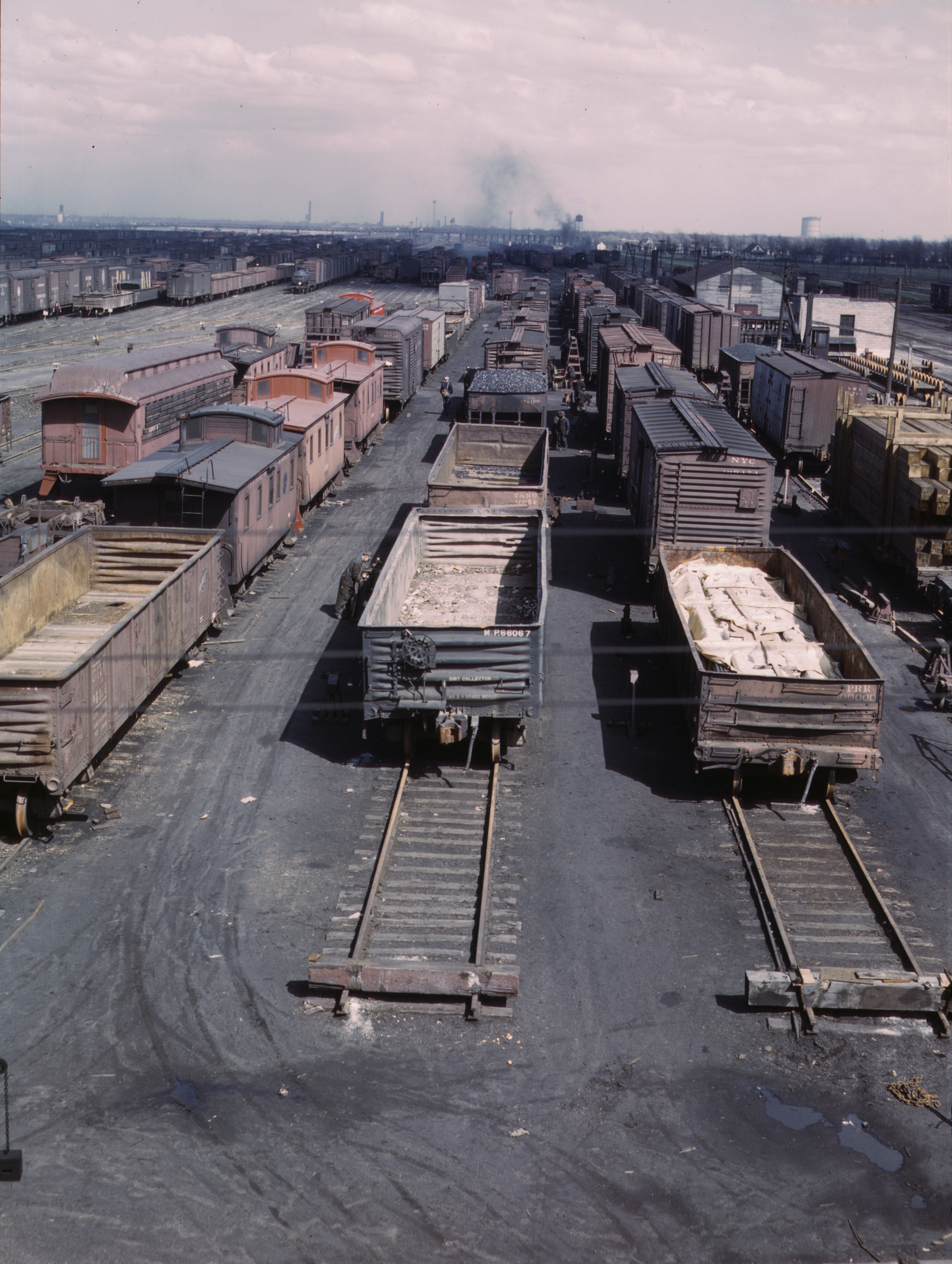 General view of part of the rip tracks at Chicago and North Western Railway Company's Proviso yard, Chicago, Ill.